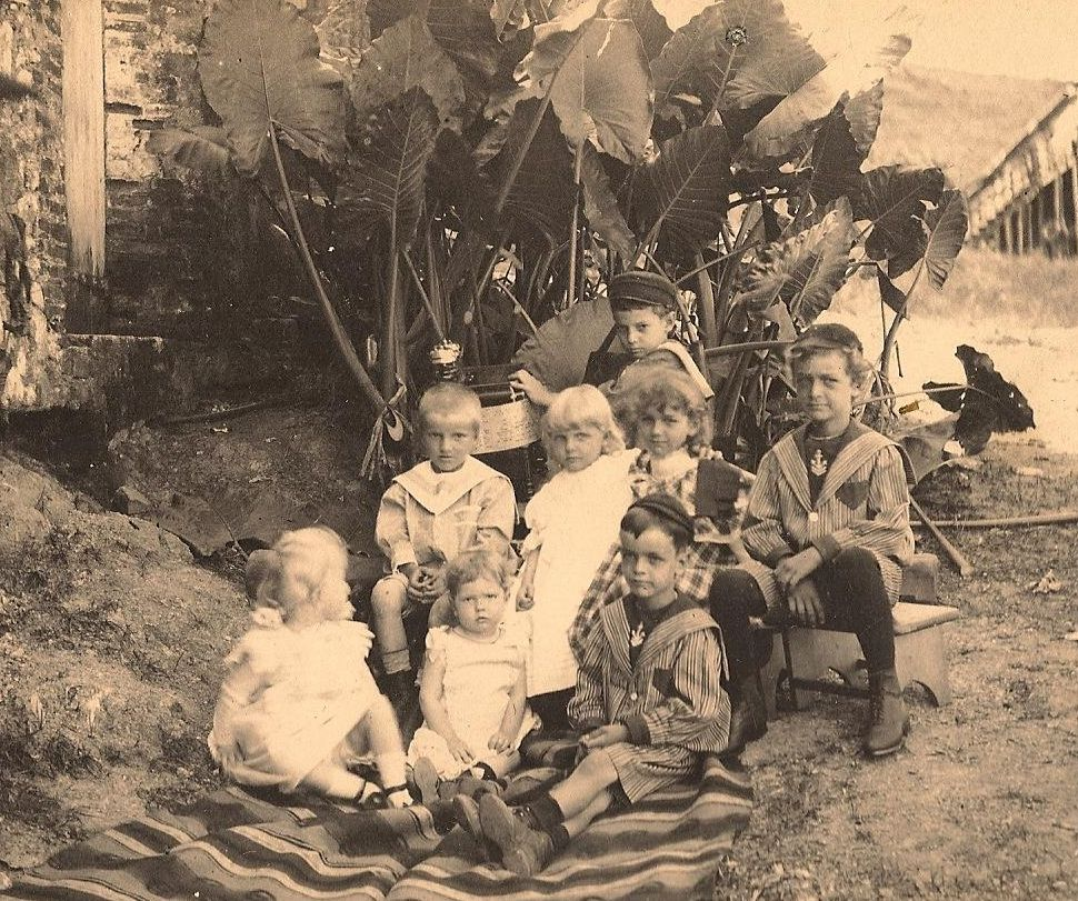 The Riefkohl and Vergeses children, Puerto Ricans of German descent.